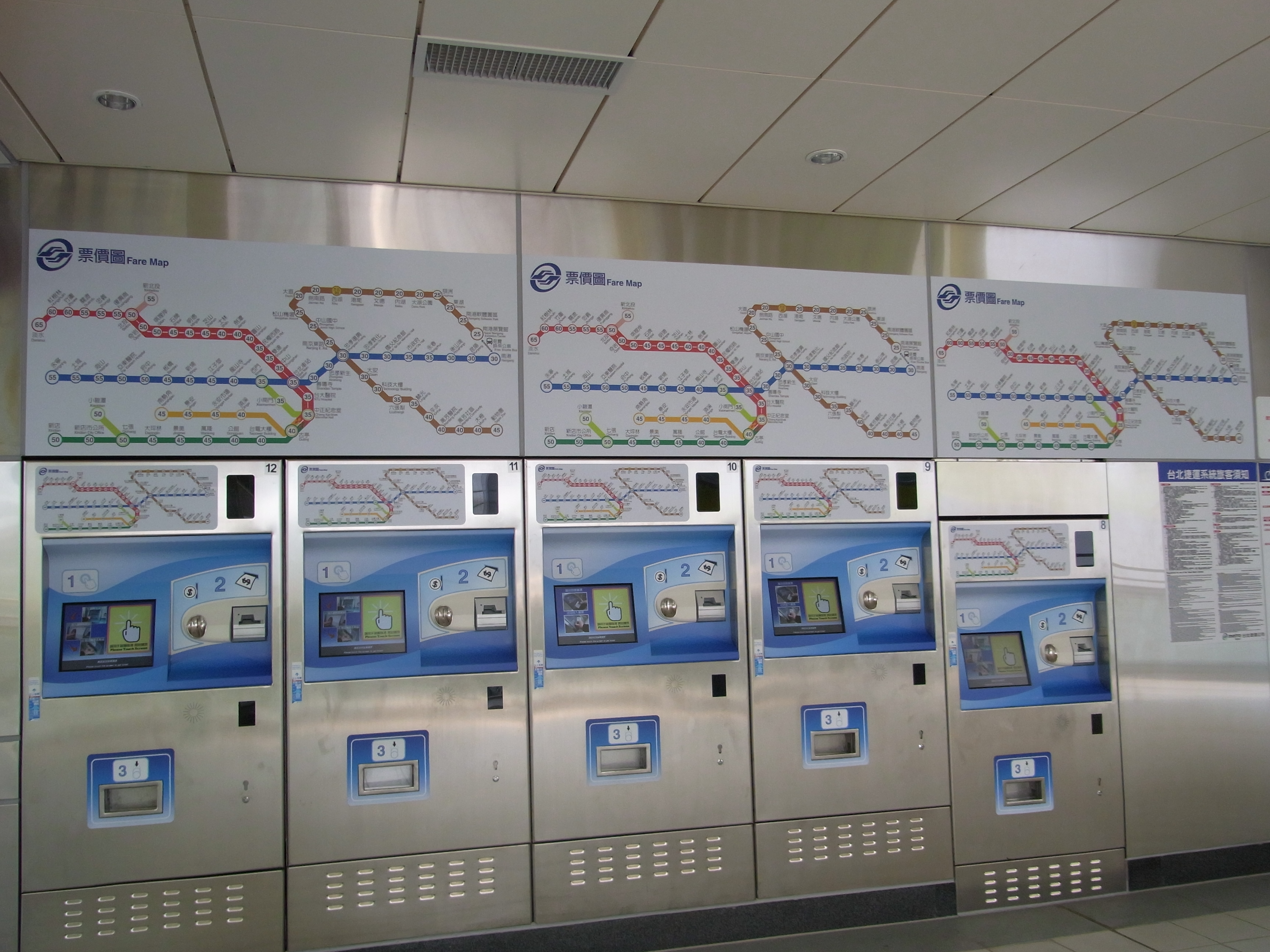 Ticket machines in Xihu station on the Neihu Line of Taipei Rapid Transit System.